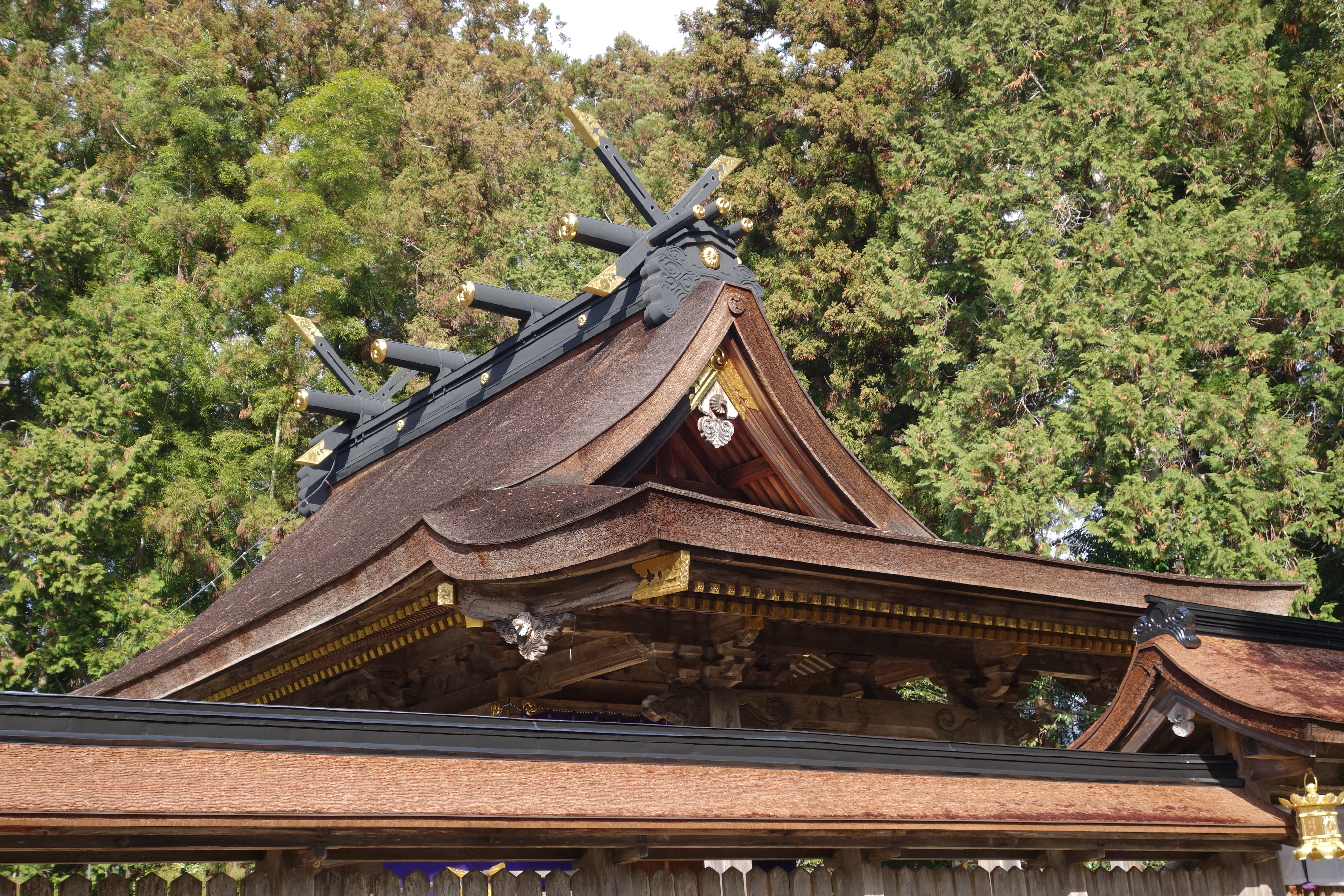 Chigi, Katsuogi and bronze ornaments of Hongu Taisha's roof top, in Tanabe